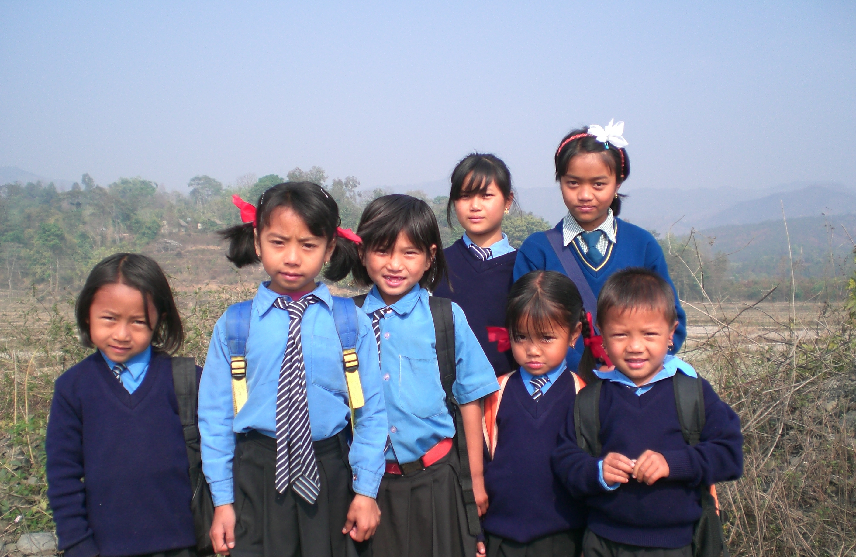 School children of Longa Koireng, Manipur, India